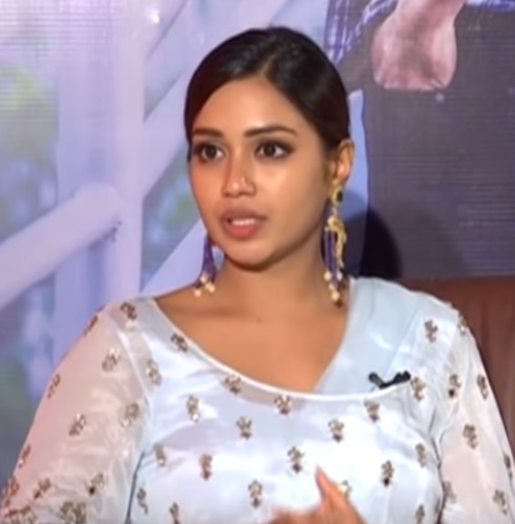 Nivetha Pethuraj in interview